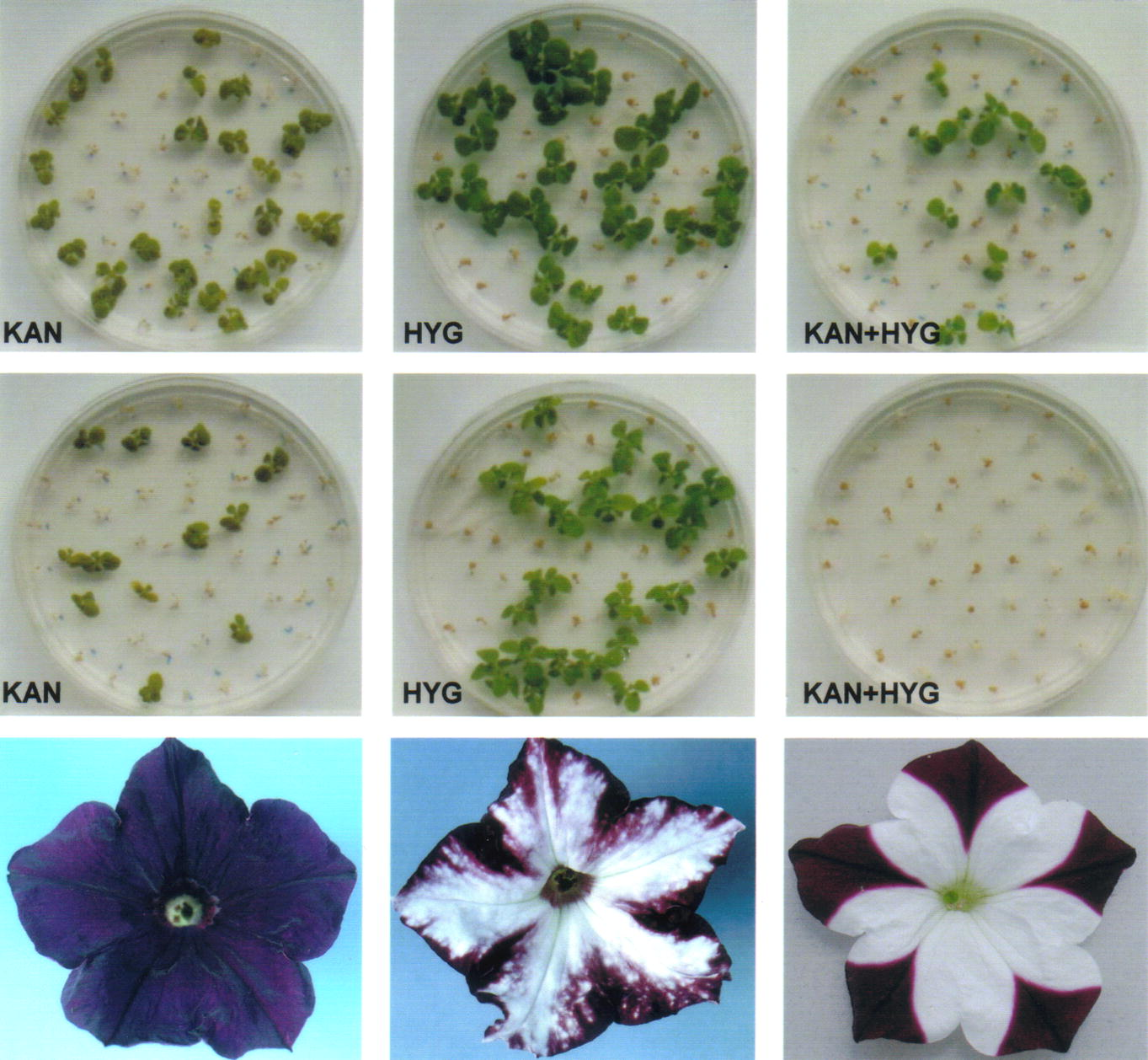 Early Examples of Gene Silencing in Transgenic Plants. TGS: Normally when two plants harboring separate transgenes encoding resistance to kanamycin (kan) or hygromycin (hyg), respectively, are crossed, 50% of the progeny are resistant to the individual antibiotics and 25% are resistant to a combination of both (top). In cases of silencing, expression of the KAN marker is extinguished in the presence of the HYG marker, as indicated by only 25% kan resistance and no double resistance (middle). PTGS: Transformation of wild-type Petunia (bottom left) with a transgene encoding a pigment protein can lead to loss of pigment (white areas) owing to cosuppression of the transgene and homologous endogenous plant gene.